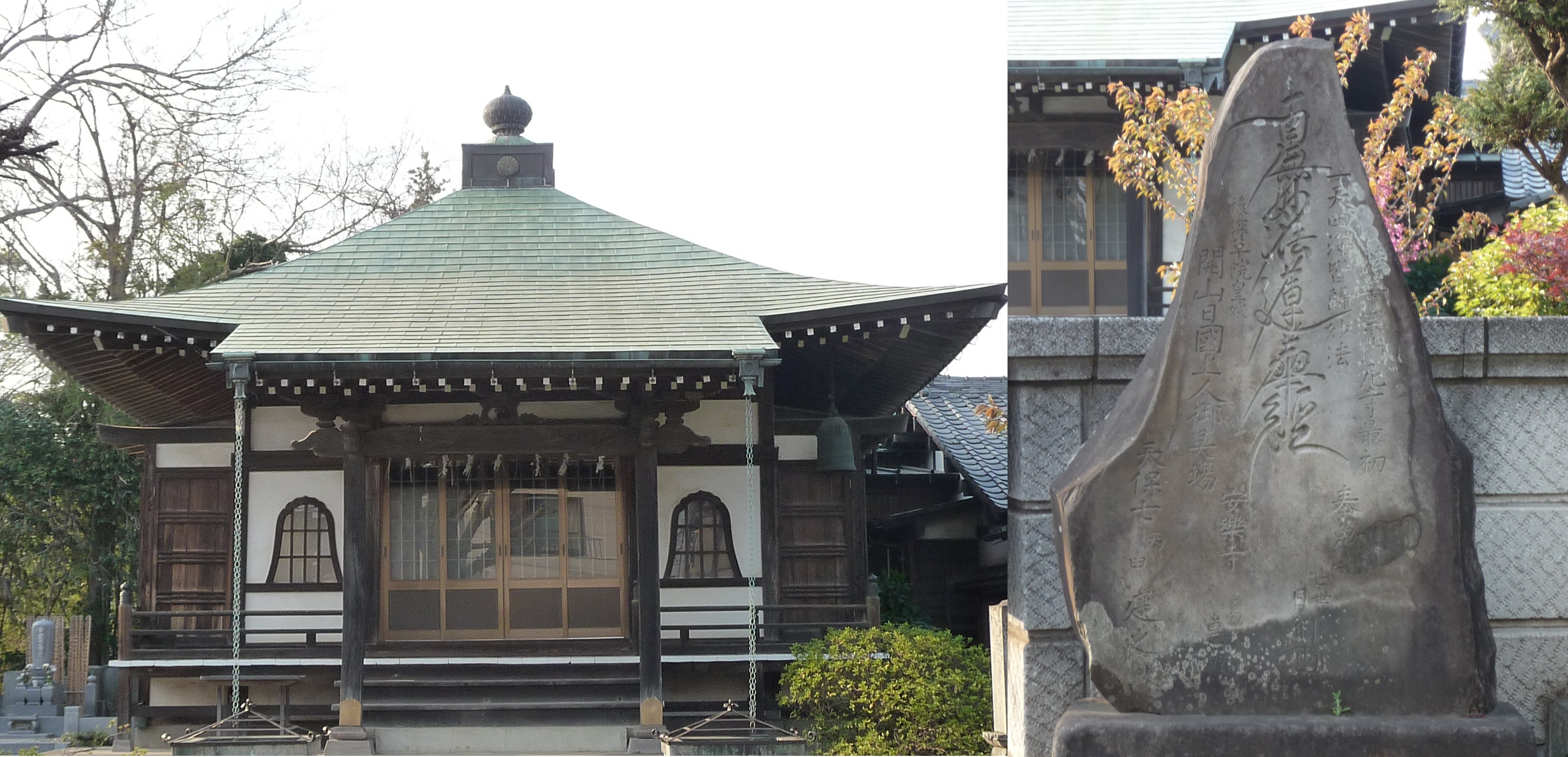 Anraku-ji temple Houme Ichikawa Chiba